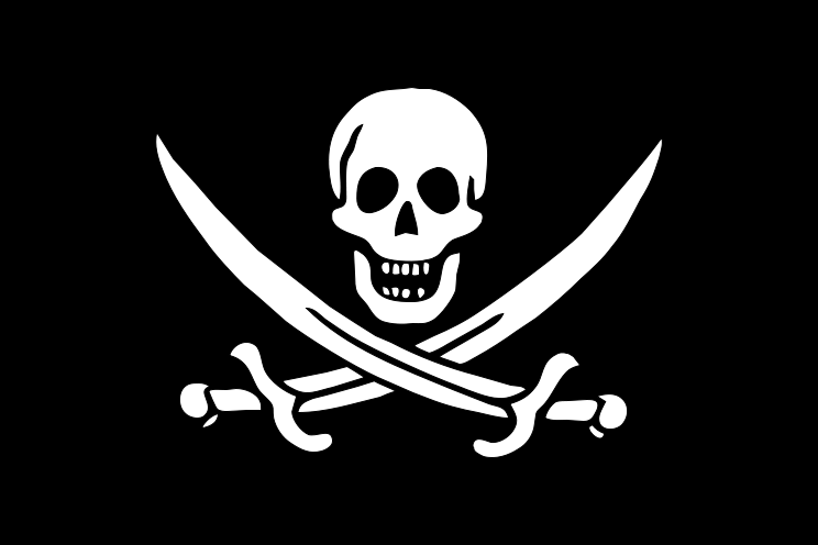 calico jack